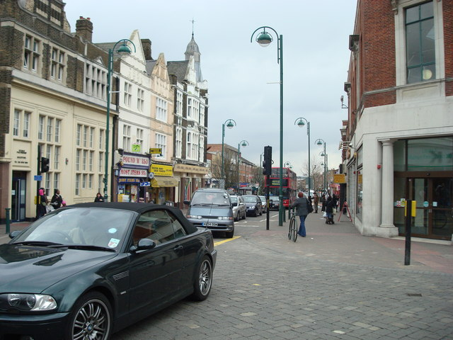 Leytonstone High Road, London E11